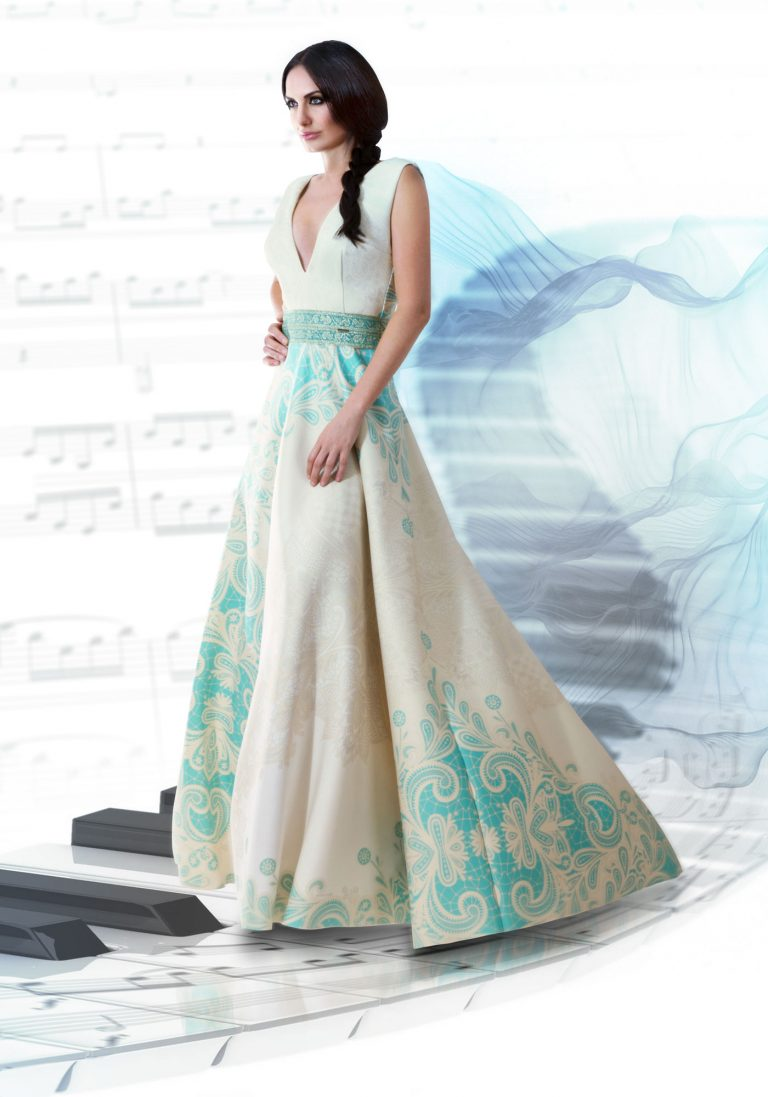 Licence: "Photo Gallery of Anita Andreis’s Portraits by is licensed under a Creative Commons Attribution-ShareAlike 4.0 International License." Photographer: Deyan Baric